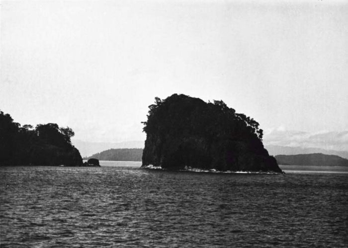 Rock, Pulau Damar